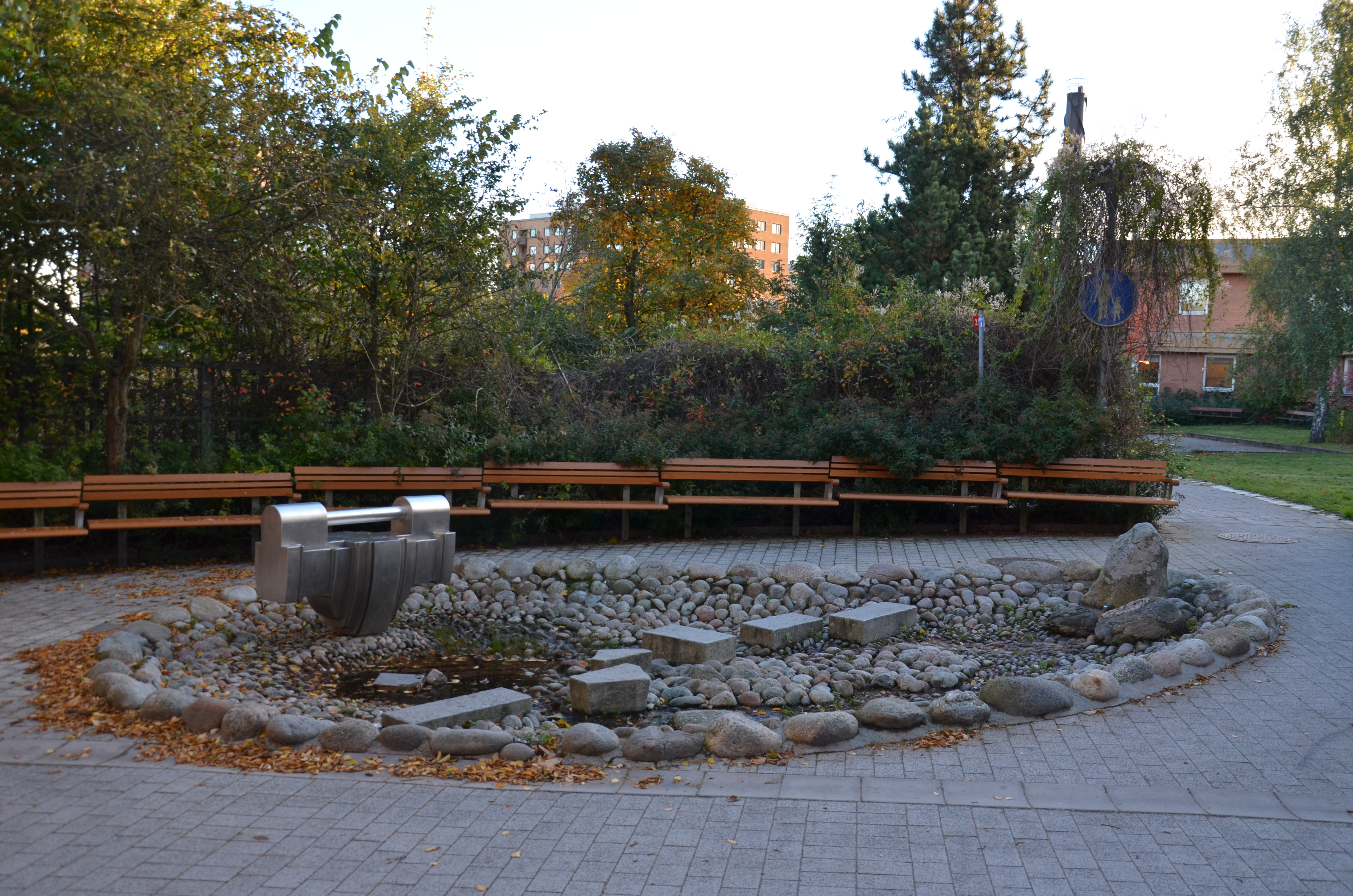 Osome-Jo, by Tommy Widing, Axelsbergs torg, Stockholm